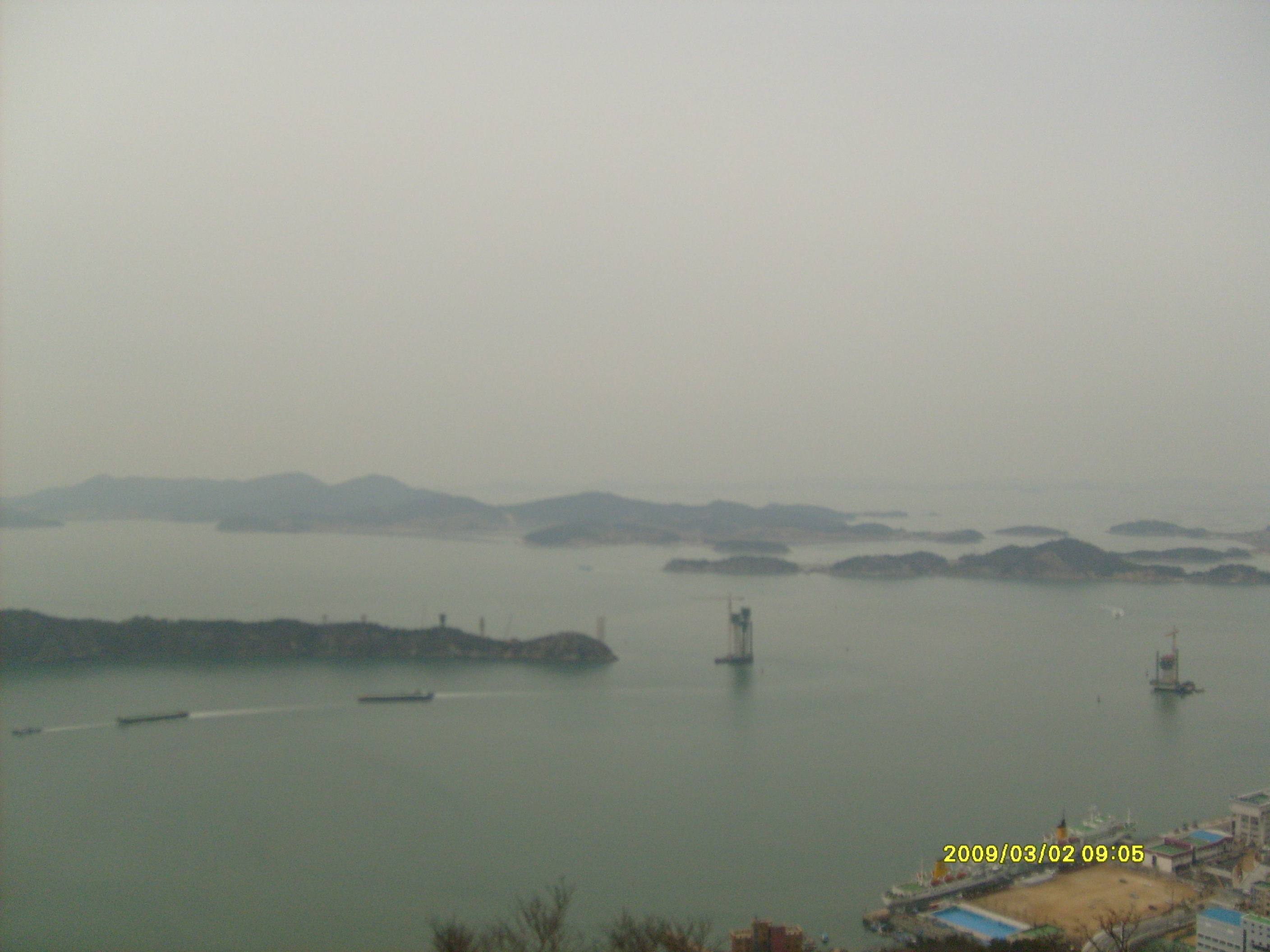 Taken at the top of Mt. Yudal in Mokpo, South Korea it shows the islands in Yellow sea including Sinan County, Jeollanam-do